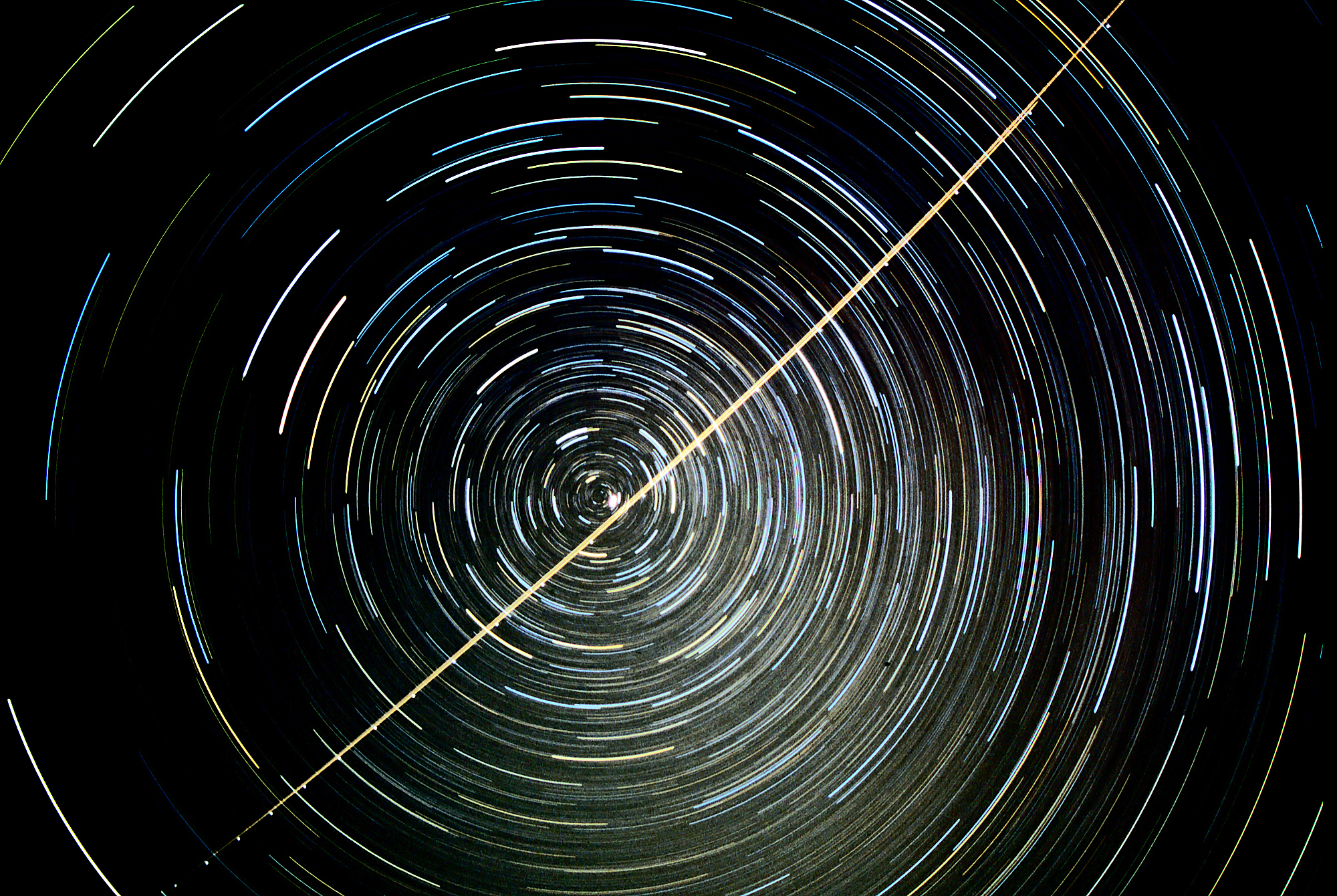 A time exposure centered on Polaris from Powell Butte, Oregon. High flying jet crossed during exposure. Camera was Minolta X700, 28 mm lens, 106 min. @ f11. Film was Fuji Sensia 100 slide film.